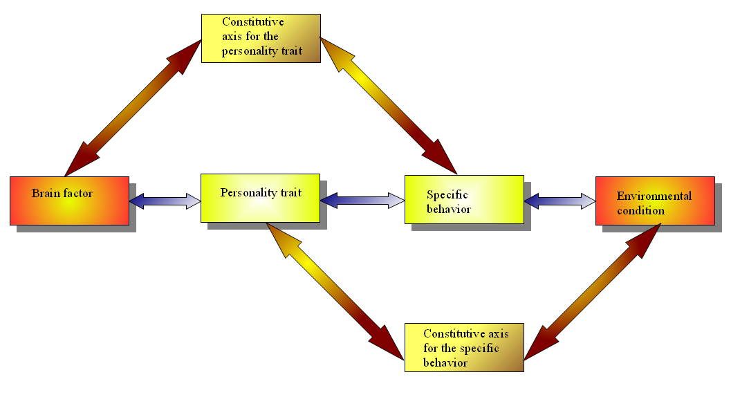 Based on information from Tapu CS, Hypostatic Personality: Psychopathology of Doing and Being Made, Premier, 2001.